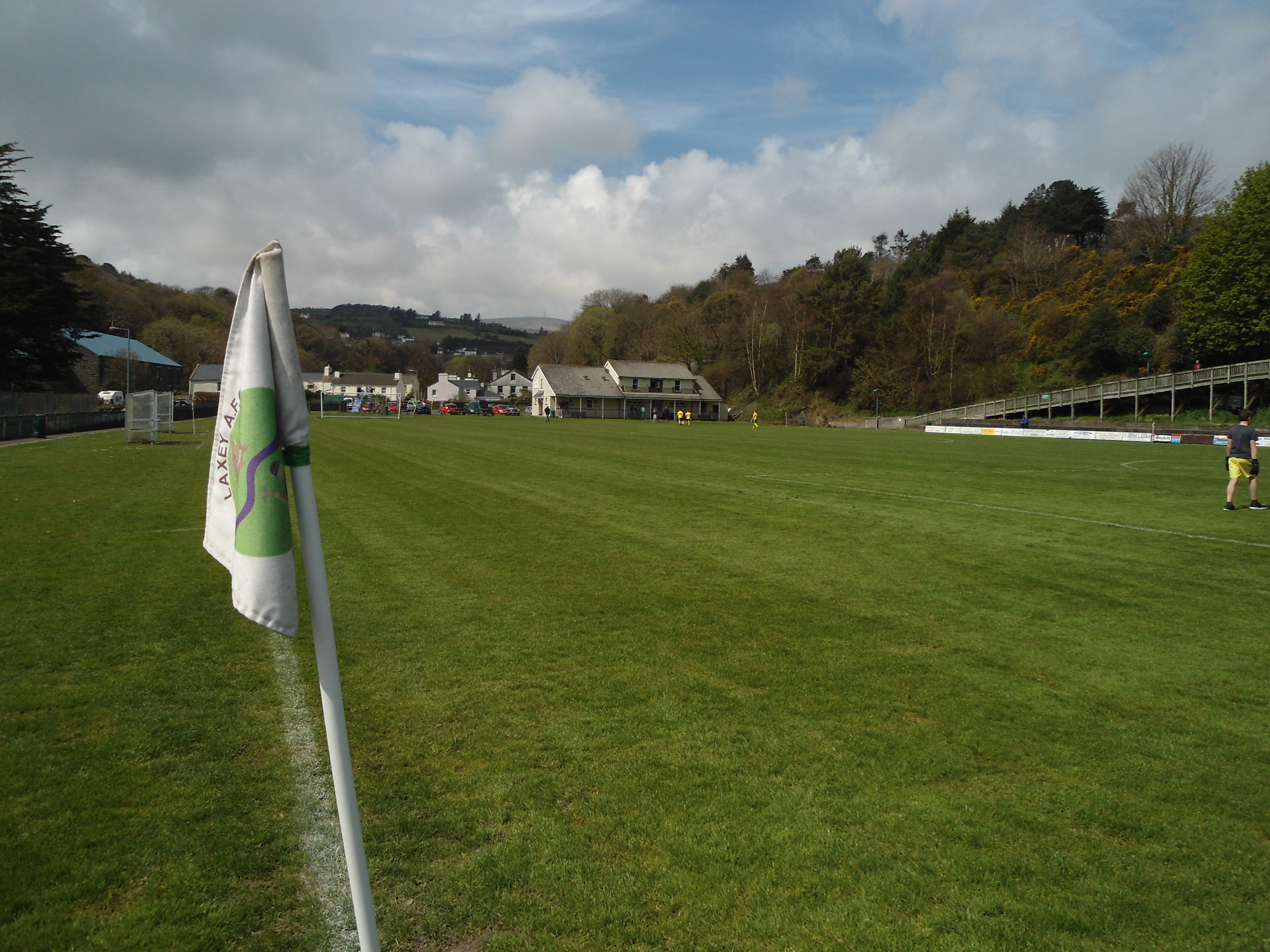 Laxey AFC's Glen Road pitch and ground